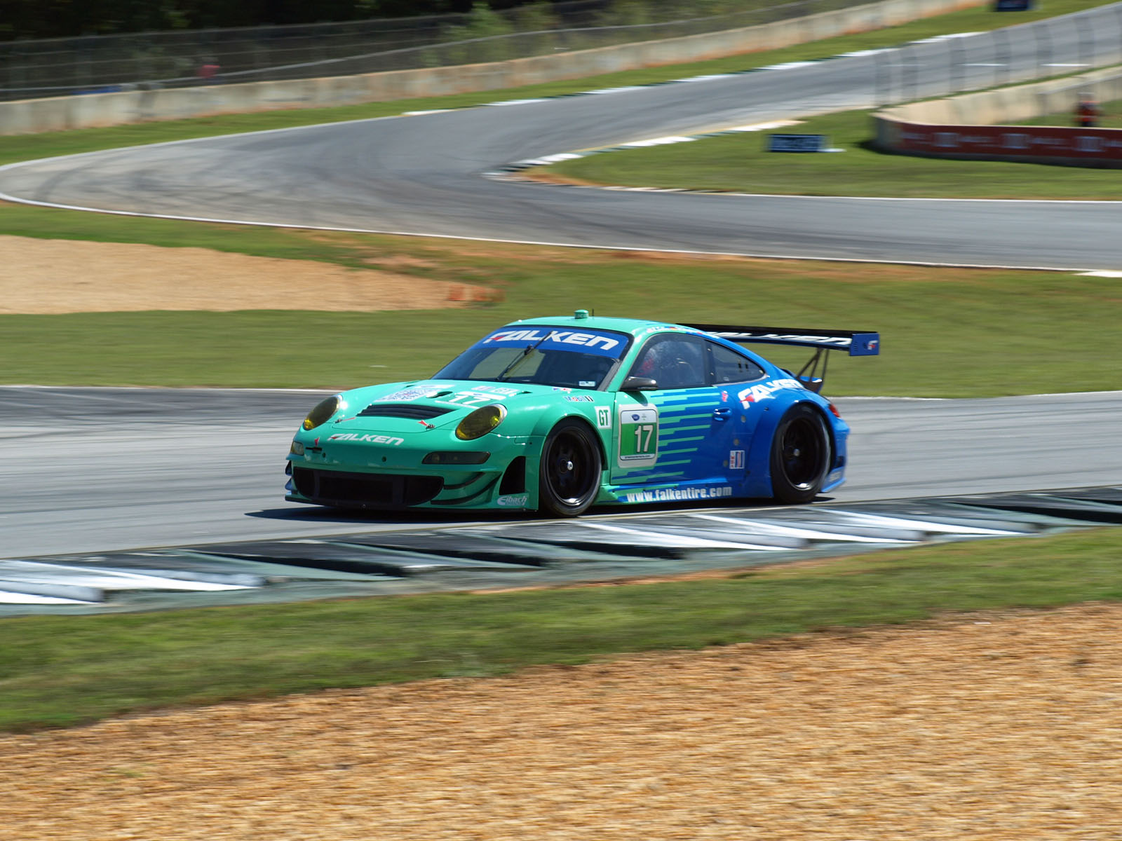 Bryan Sellers driving the Team Falken Tire Porsche 997 GT3 RSR in qualifying for the 2011 Petit Le Mans at Road Atlanta.